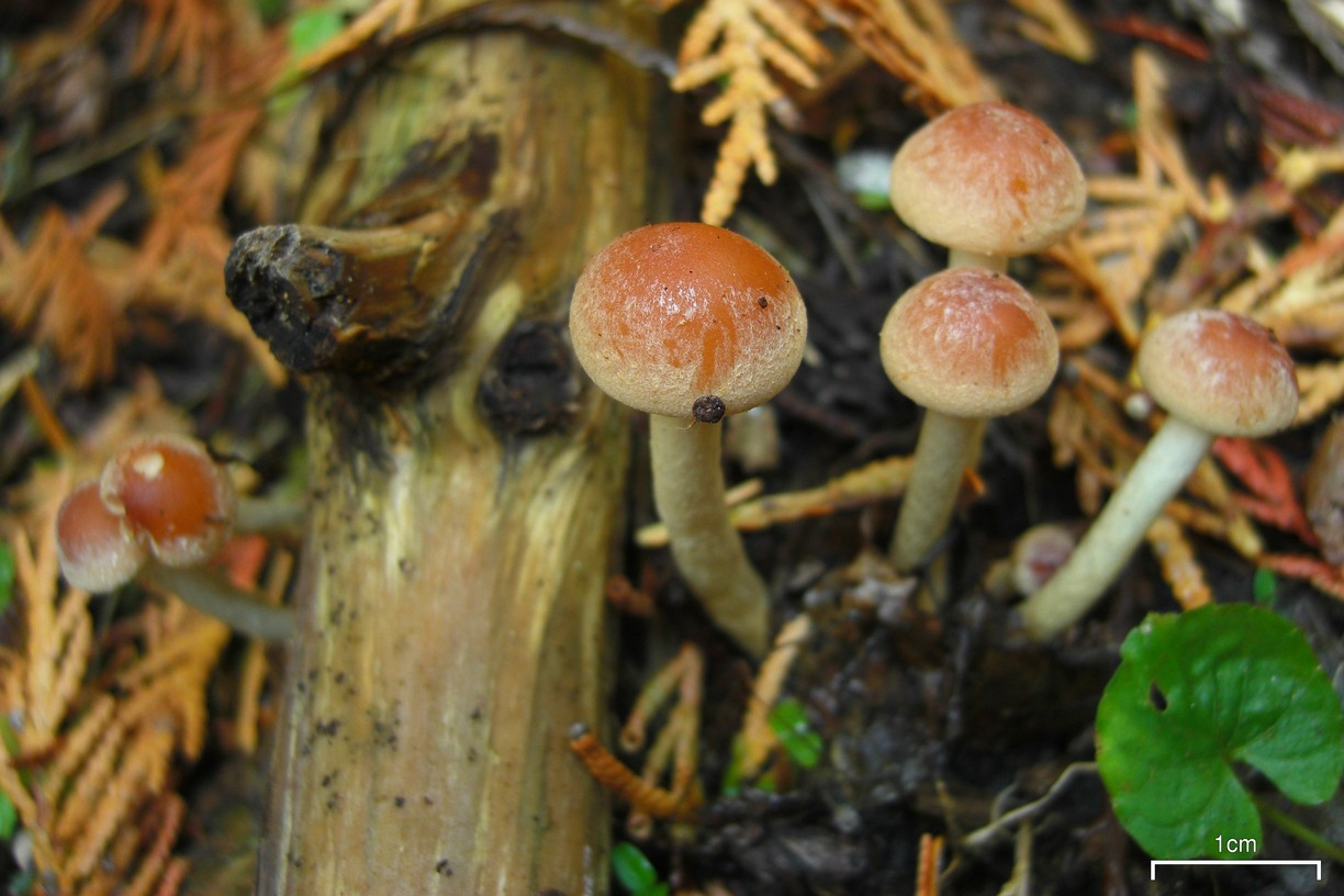 Pholiota astraglina 20090927.17 Canada, BC, Incomappleux Inland Rainforest